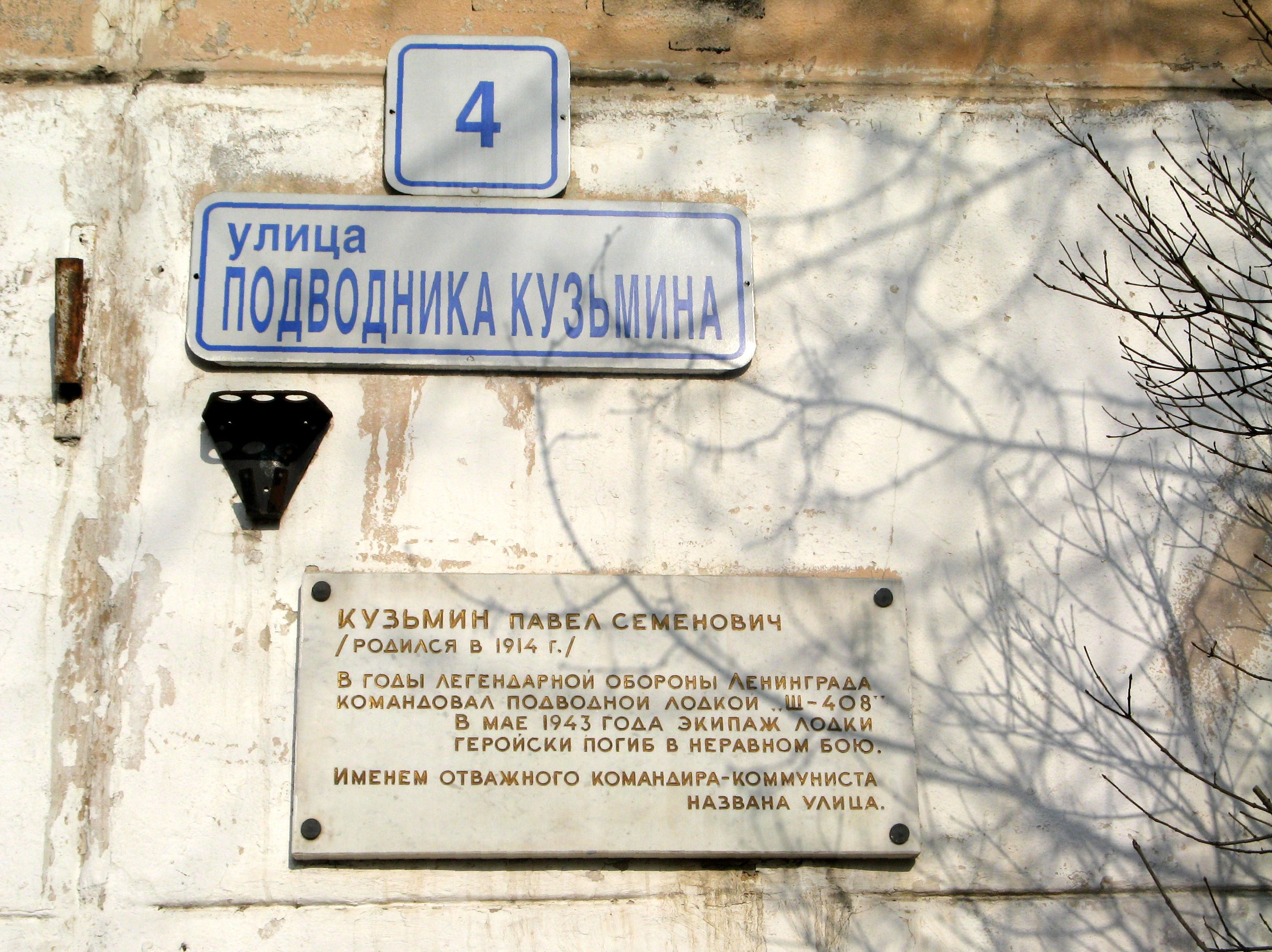 Podvodnika Kuzmina street, St. Petersburg. Memorial plague